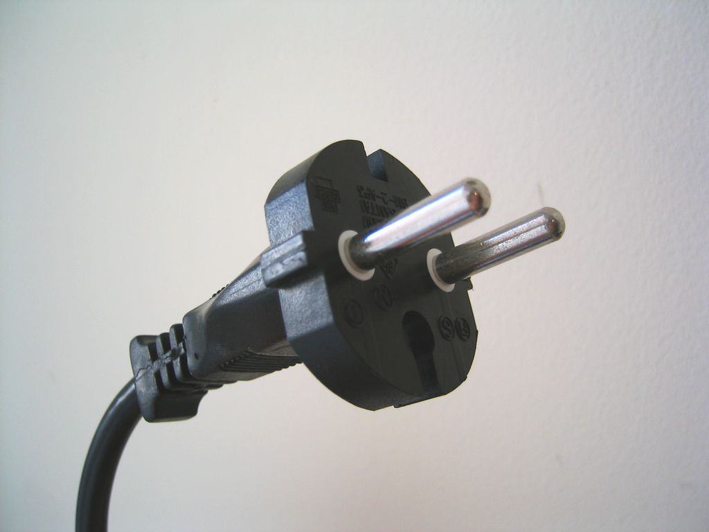 European electrical contour plug (not earthed). The plug is connected to a 2200 W heater.